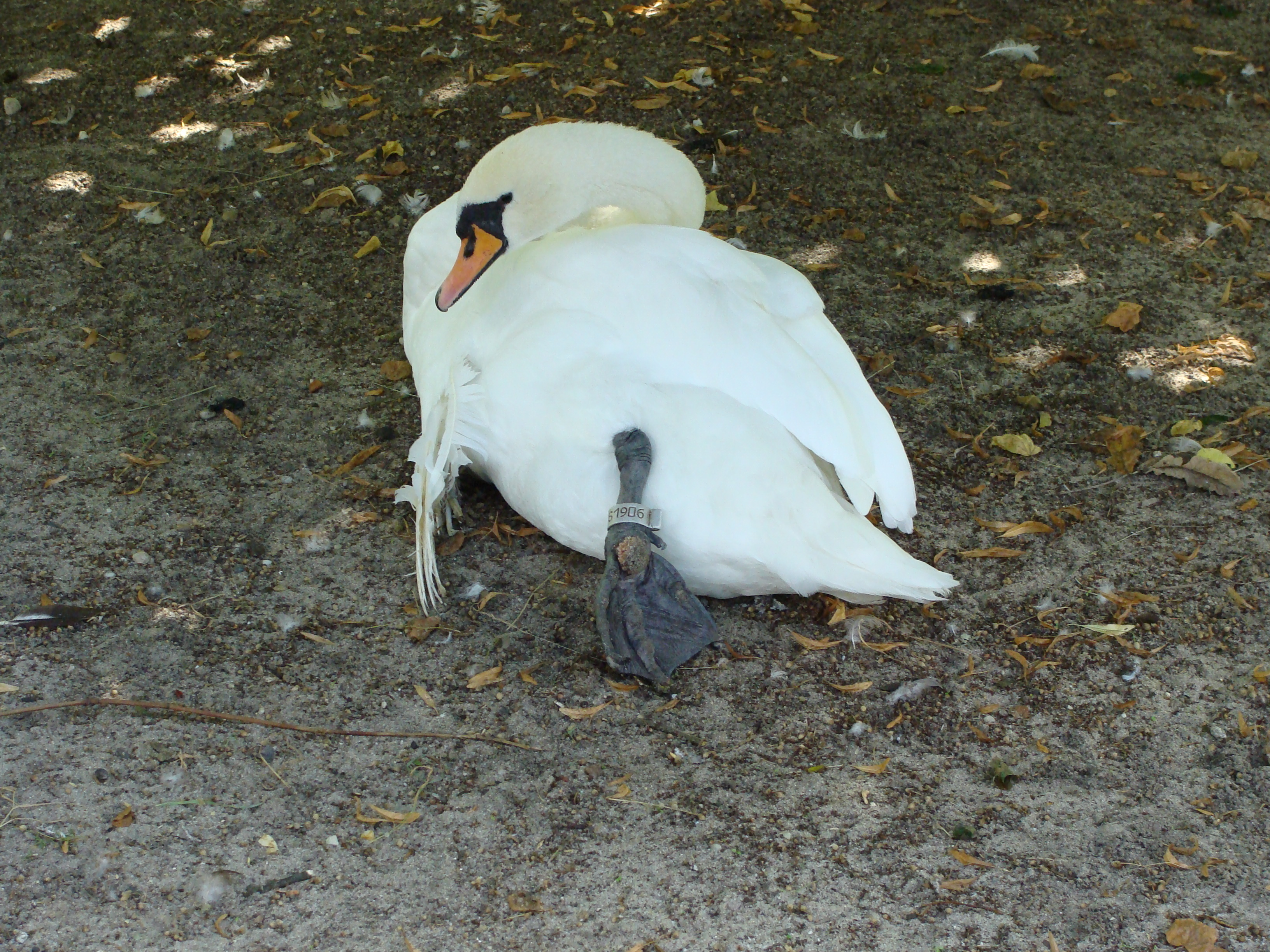 Mute swan (Cygnus olor) wearing a metal ring on its left tarsus.